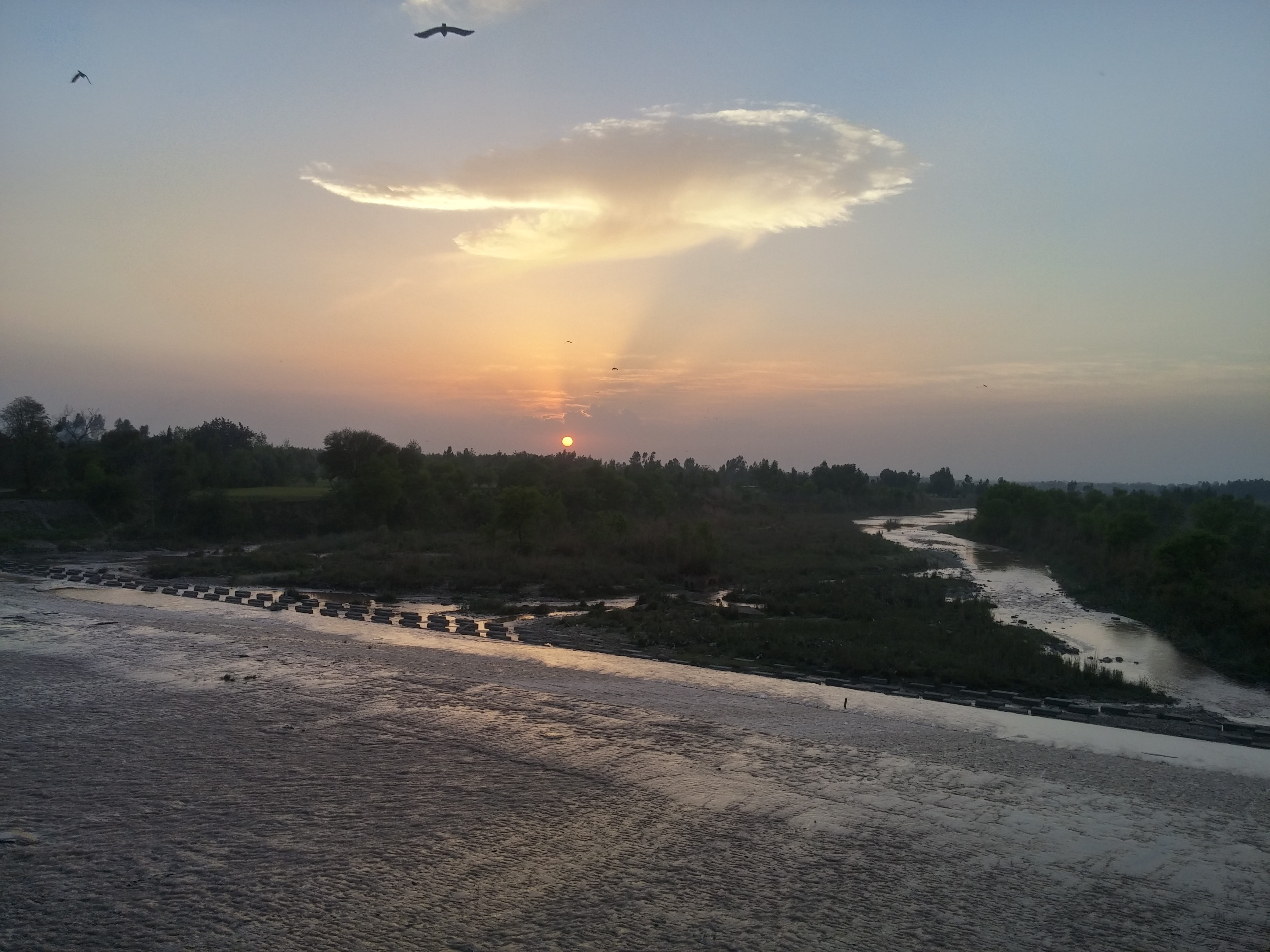 Sunset view Upper Jhelum Canal near Ali Baig headwork. Please select my photo I did my best in taking this pic, I can't afford a professional camera thats why result is not perfect as per of your requirements